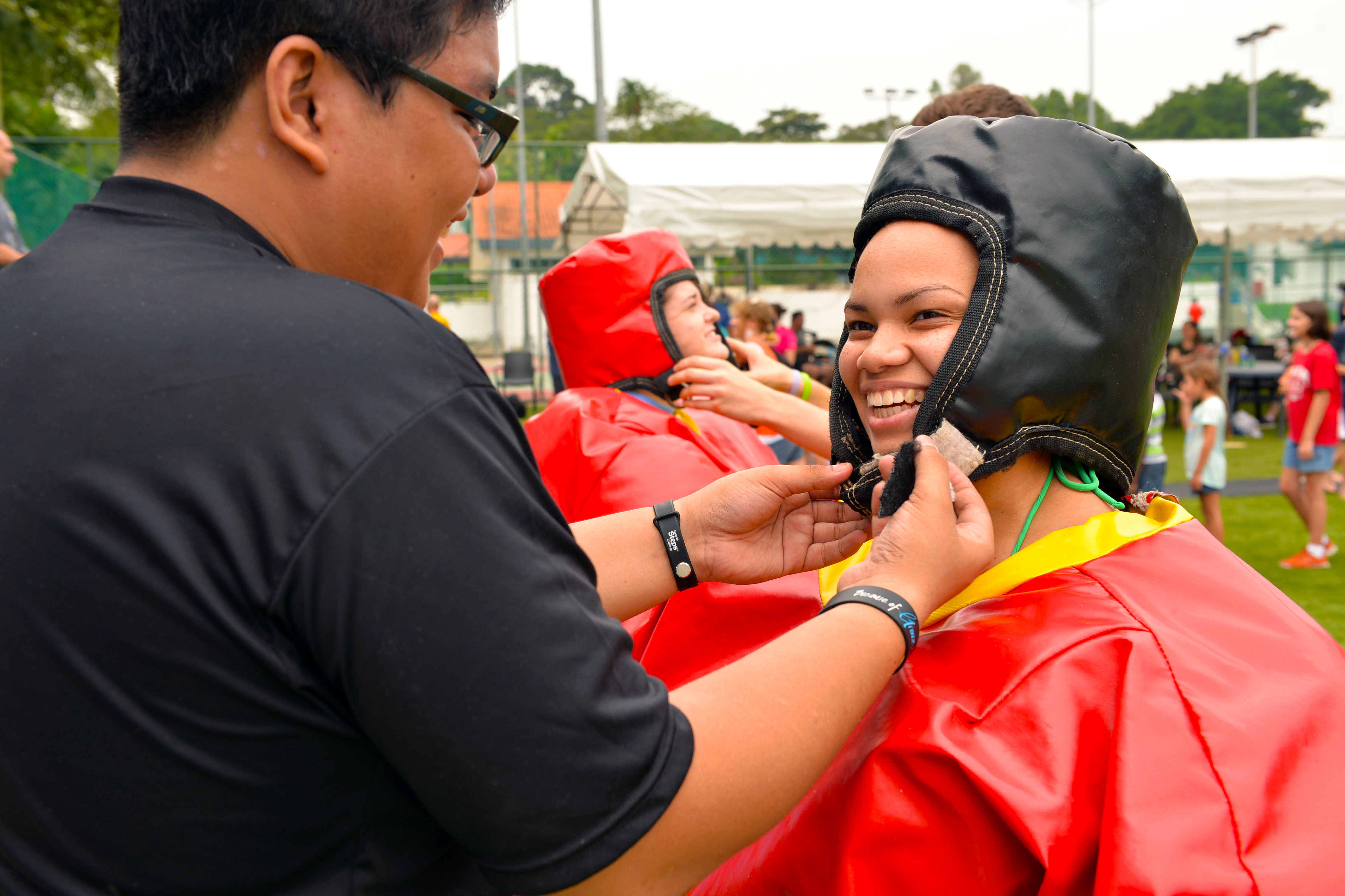 SINGAPORE (Feb. 9, 2016) - Ciana Eison, right, prepares for the Sumo Wrestling game during the 2nd Annual Singapore Area Coordinator Fun Day, Feb. 9, 2016. The community-wide event was sponsored by the First Class Petty Officer Association, Chief Petty Officer Association, Junior Enlisted Association and Morale Welfare and Recreation. The daylong event began at 10 a.m. and gathered more than 300 military service members, DoD civilians and families. Other featured events included, a tug-of-war contest, a pugil sticks warrior game, a Corn-Hole bean bag game, a water dunk tank and a king-size air jumper. Participants also played a few rounds of volleyball and kickball. (Official U.S. Navy photo by Marc Ayalin) Unit: Navy Region Center Singapore